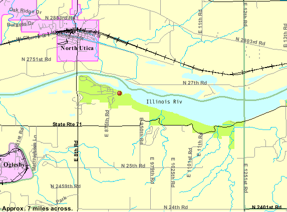 Map of Starved Rock State Park, LaSalle County, Illinois, USA